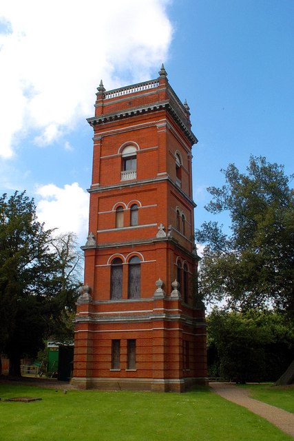 Orwell Park School Water Tower. Built by J MacVicar Anderson for landowner Colonel Tomline in 1868, the Jacobean style tower holds 10,000 gallons. Water was also pumped from here to a clocktower and to 26 tanks in the roof of the school. In use until recently.